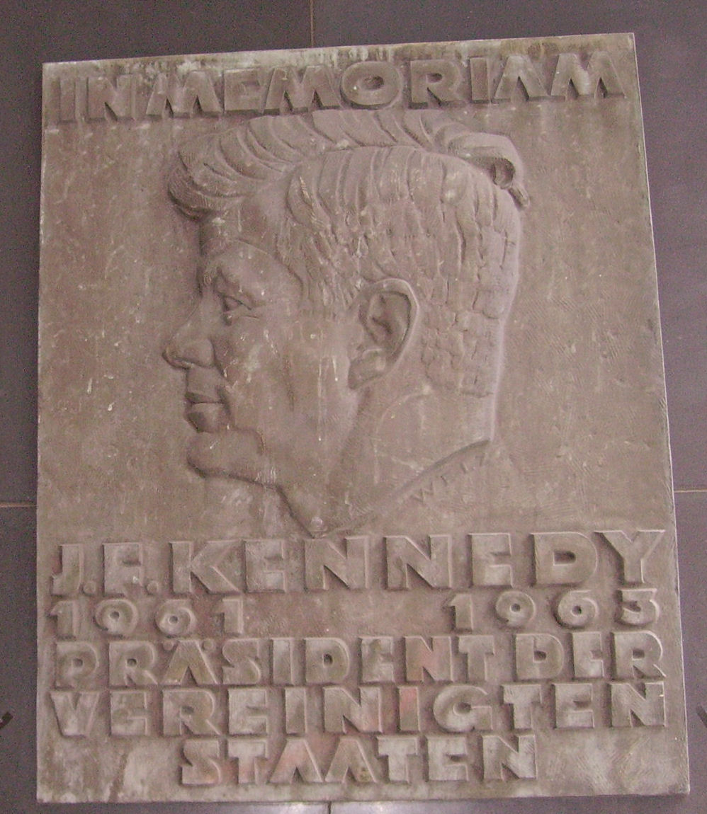 John F. Kennedy in Vienna, Austria. Rotenturmstraße 1 - 3. [1]